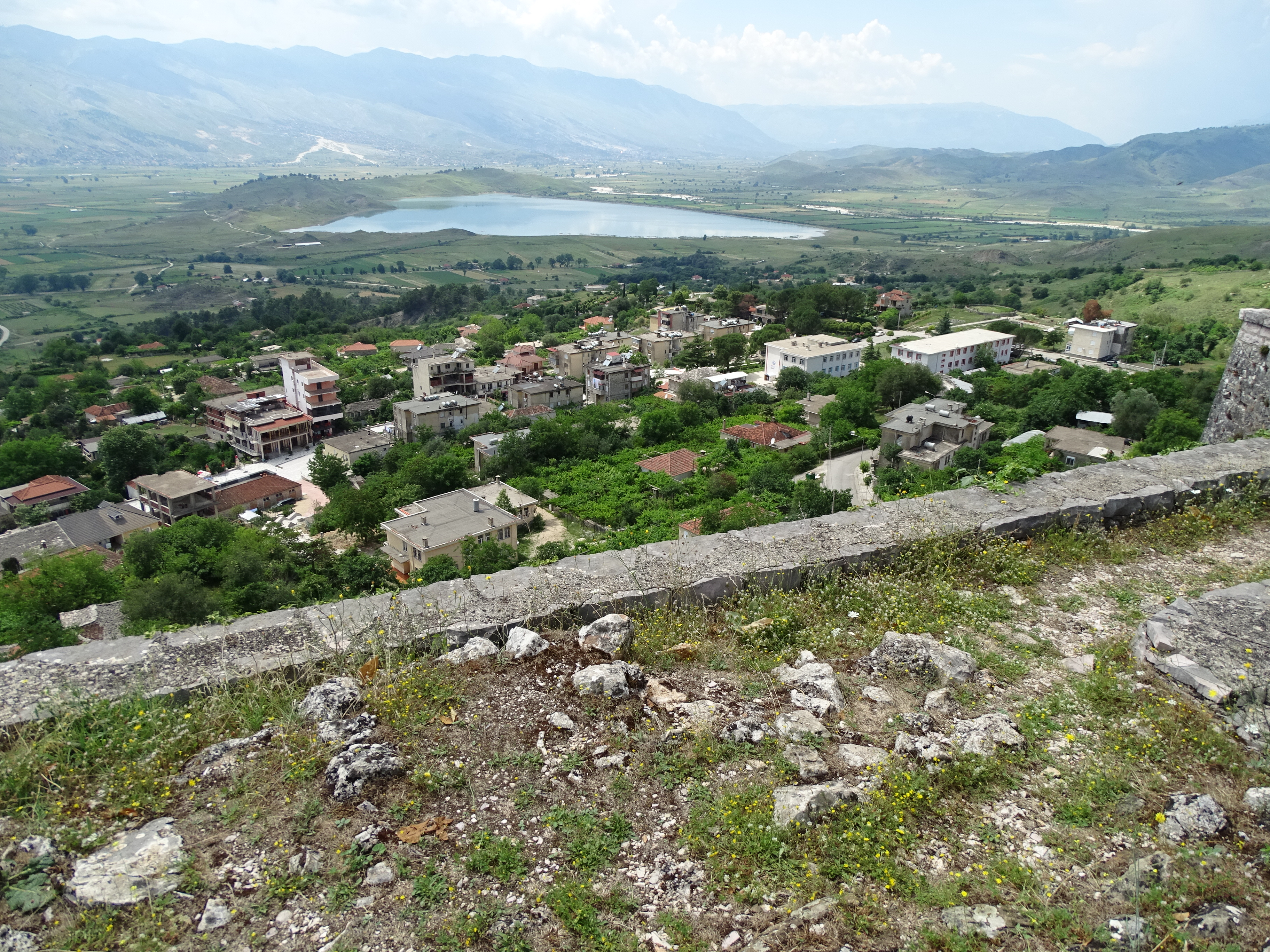 Photos by Adam Jones